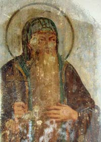 St. Nikita Stolpnik